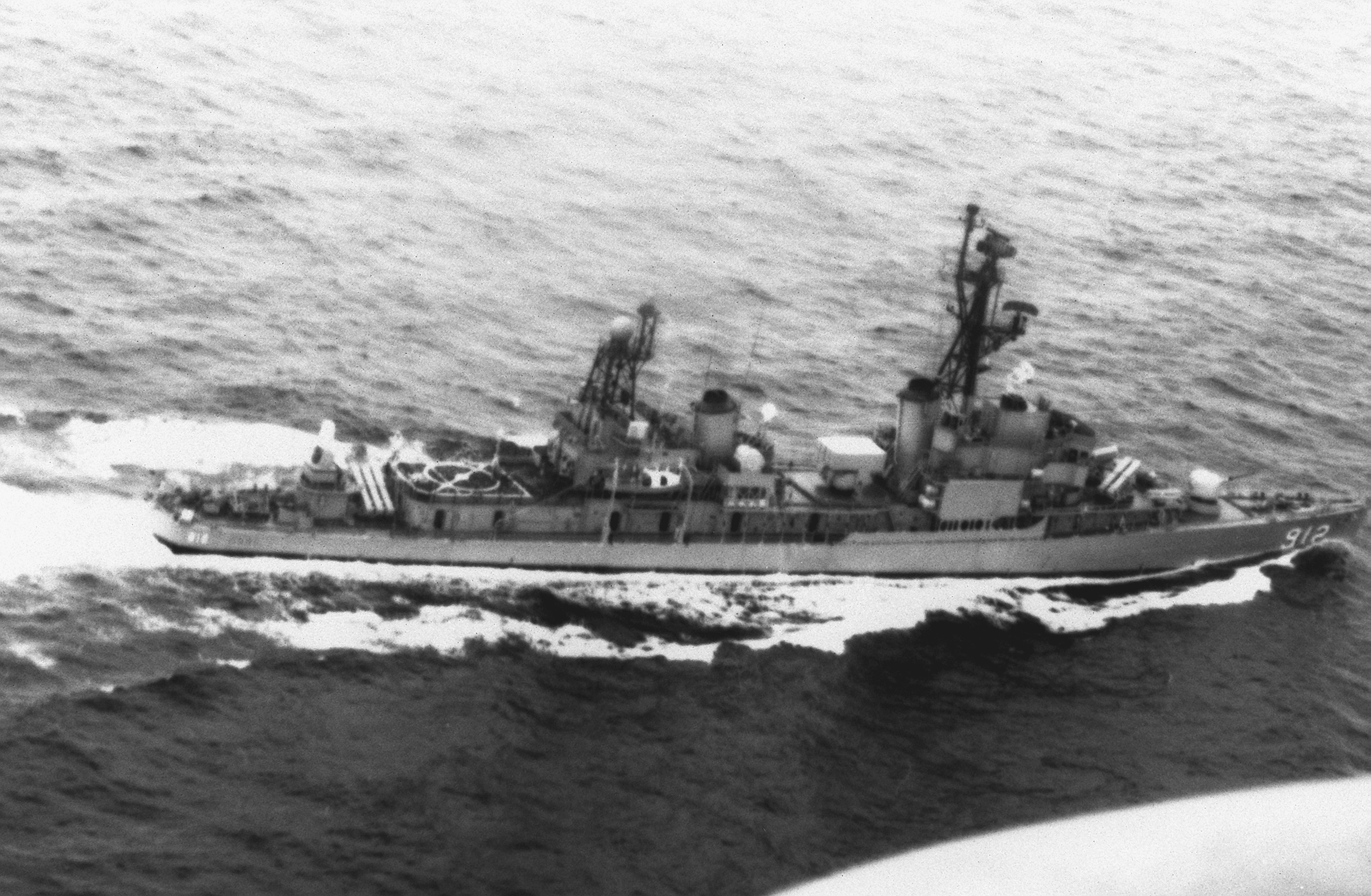 The Taiwanese navy destroyer Chien Yang (建陽艦, DDG-912) underway. The ship was formerly U.S. Navy Gearing-class destroyer the USS James E. Kyes (DD-787). She served in the U.S. Navy 1946-1973 and then in the Taiwanese navy 1973-2004.